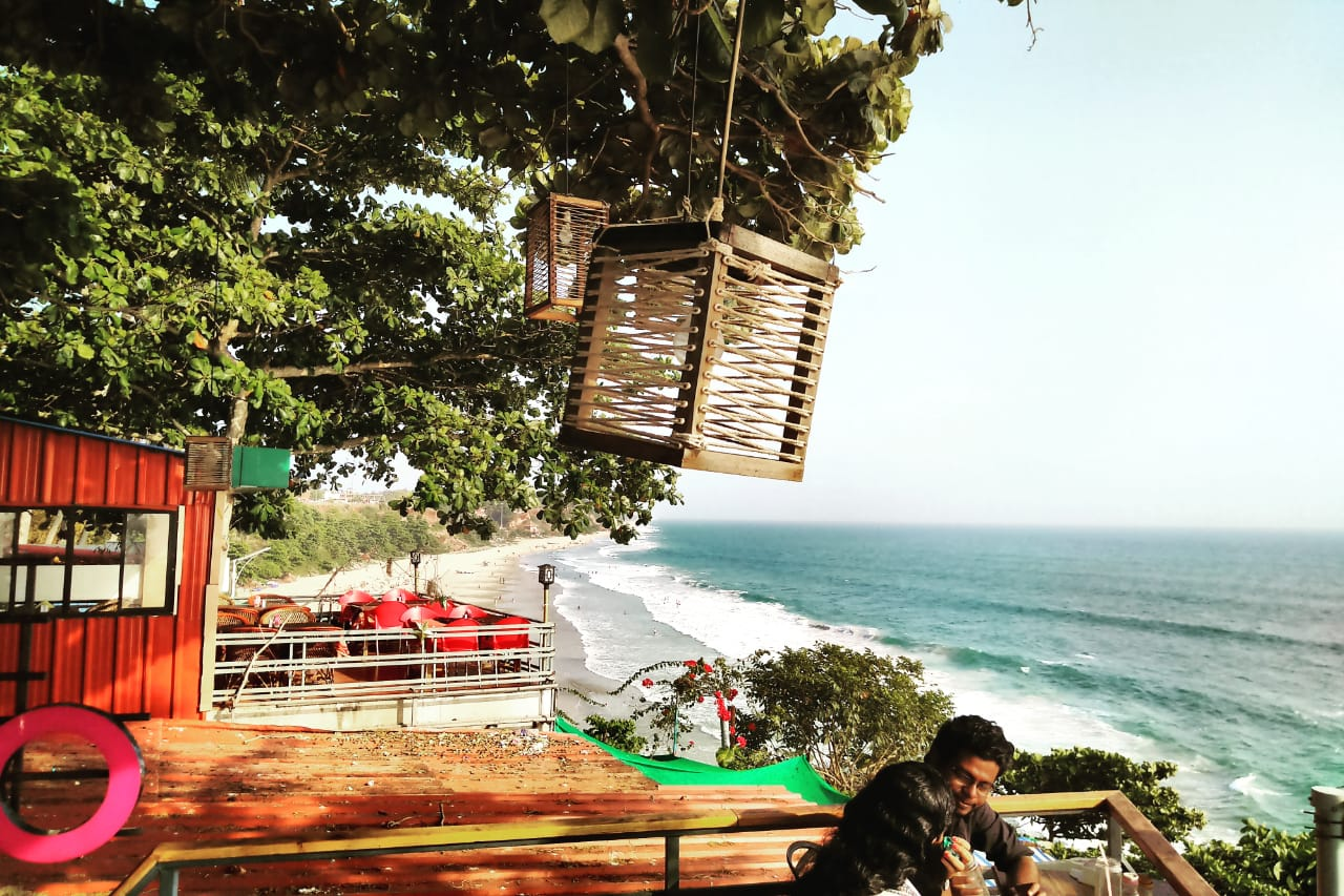 Varkala Beach View